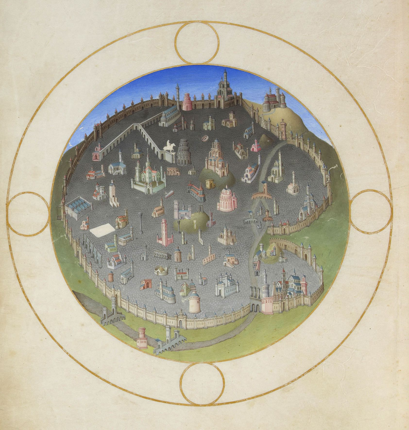 The plan of the Eternal City depicted from a bird's eye view, with north at bottom of the page and south at top. Represented are only monuments from antiquity and Christianity, but no residential buildings or any street. The plan seems to be centred on the Capitol.